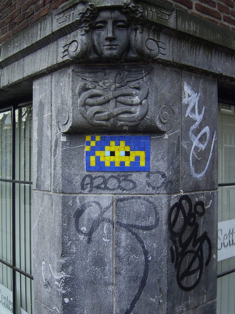 Space Invader, Amsterdam